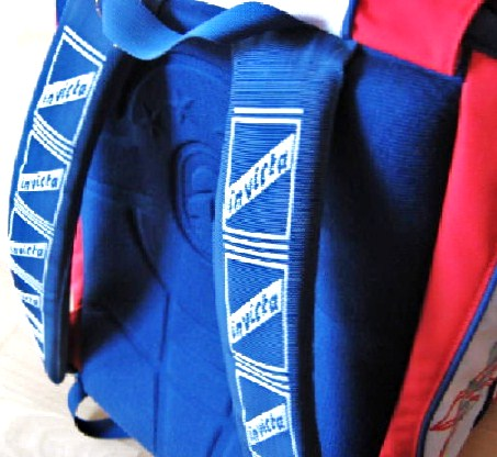 Invicta-bag